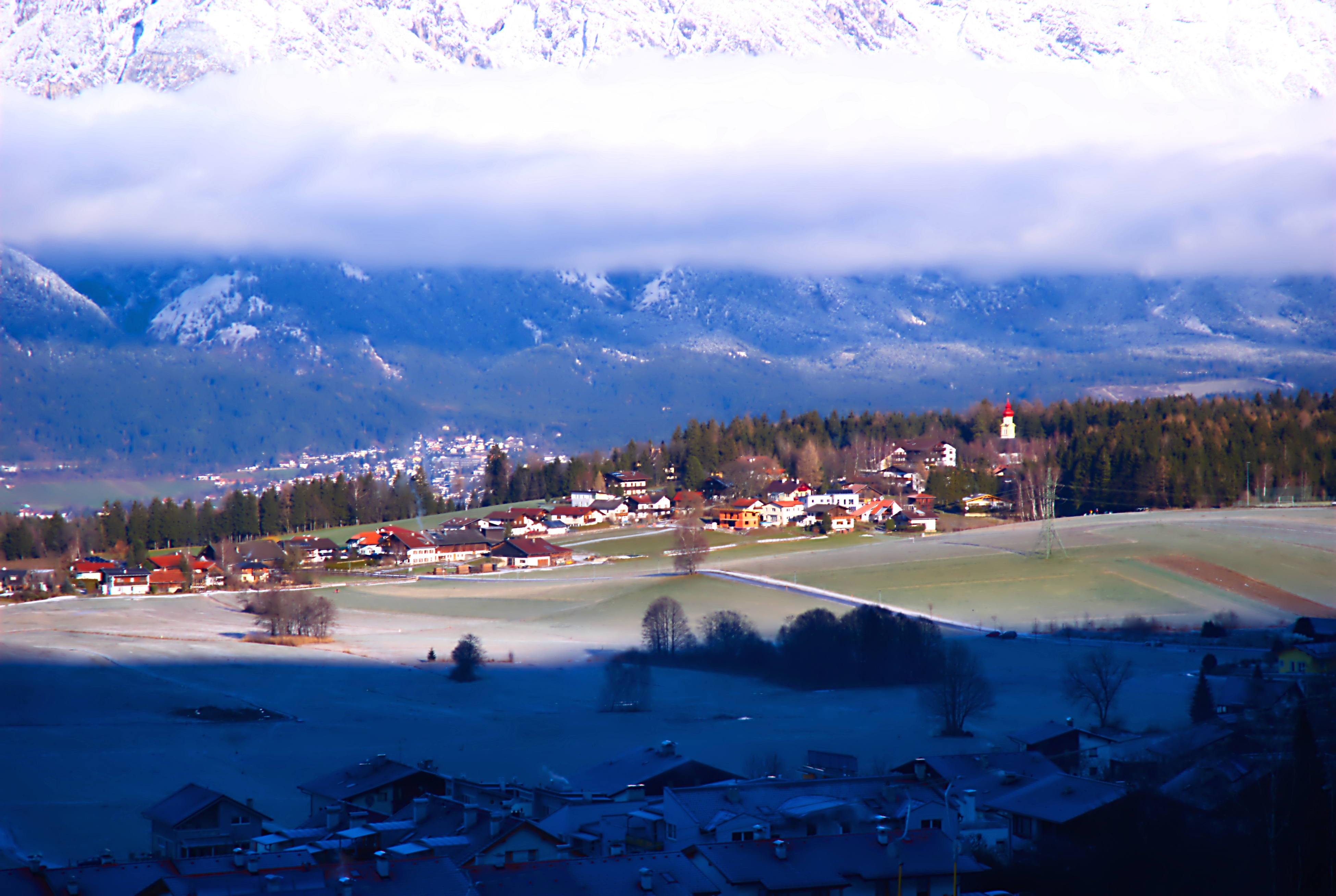 View to Judenstein, part of Rinn, Tyrol, Austria